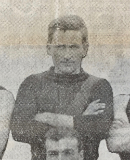 Photograph of Graham Diggle in 1914